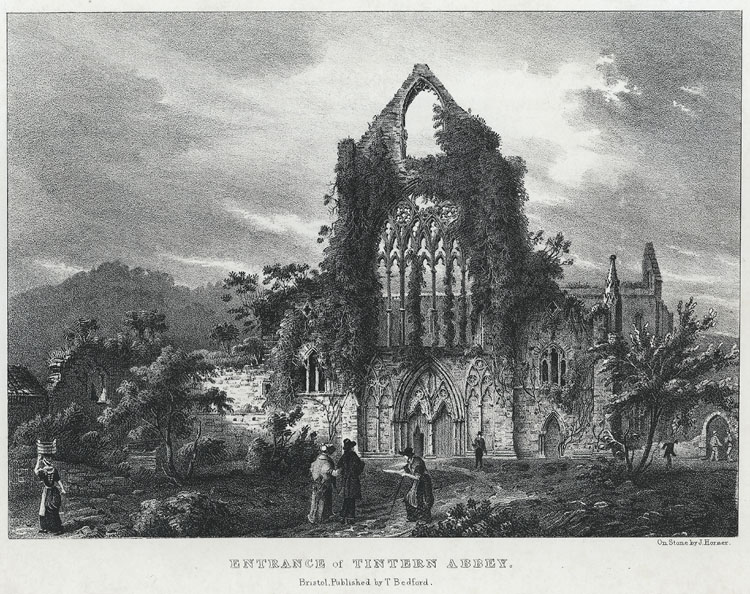 Sightseers at the entrance to Tintern Abbey. A woman in Welsh costume is begging, and another woman is carrying a basket on her head.